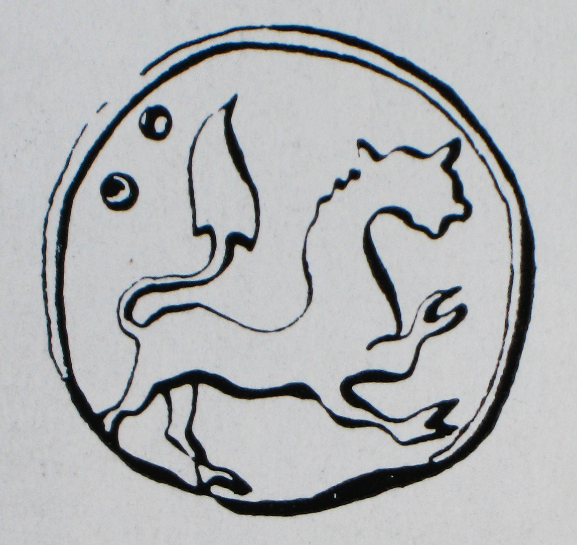 The Russian seal of Mikhail of Tver. Печать князя Михаила Александровича Тверского.